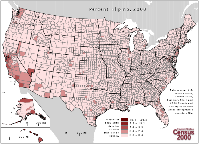 Diagram indicating Filipino American settlement in the United States. Image as based on the census 2000 by the U.S. Census Bureau. Badagnani (talk) 07:51, 23 May 2009 (UTC)